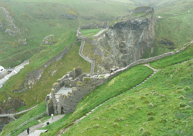 Tintagel Castle This view shows some of both the inner ward (the image subject in the foreground) and the outer ward in the distance.